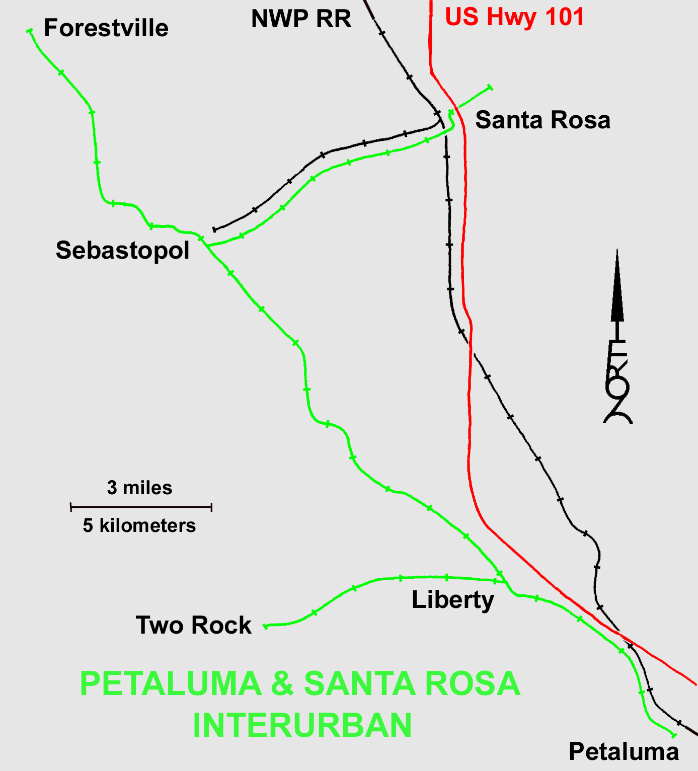 Map of the Petaluma and Santa Rosa interurban railroad, California